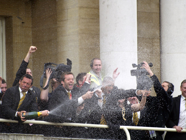 Hull City Football Club Celebrations